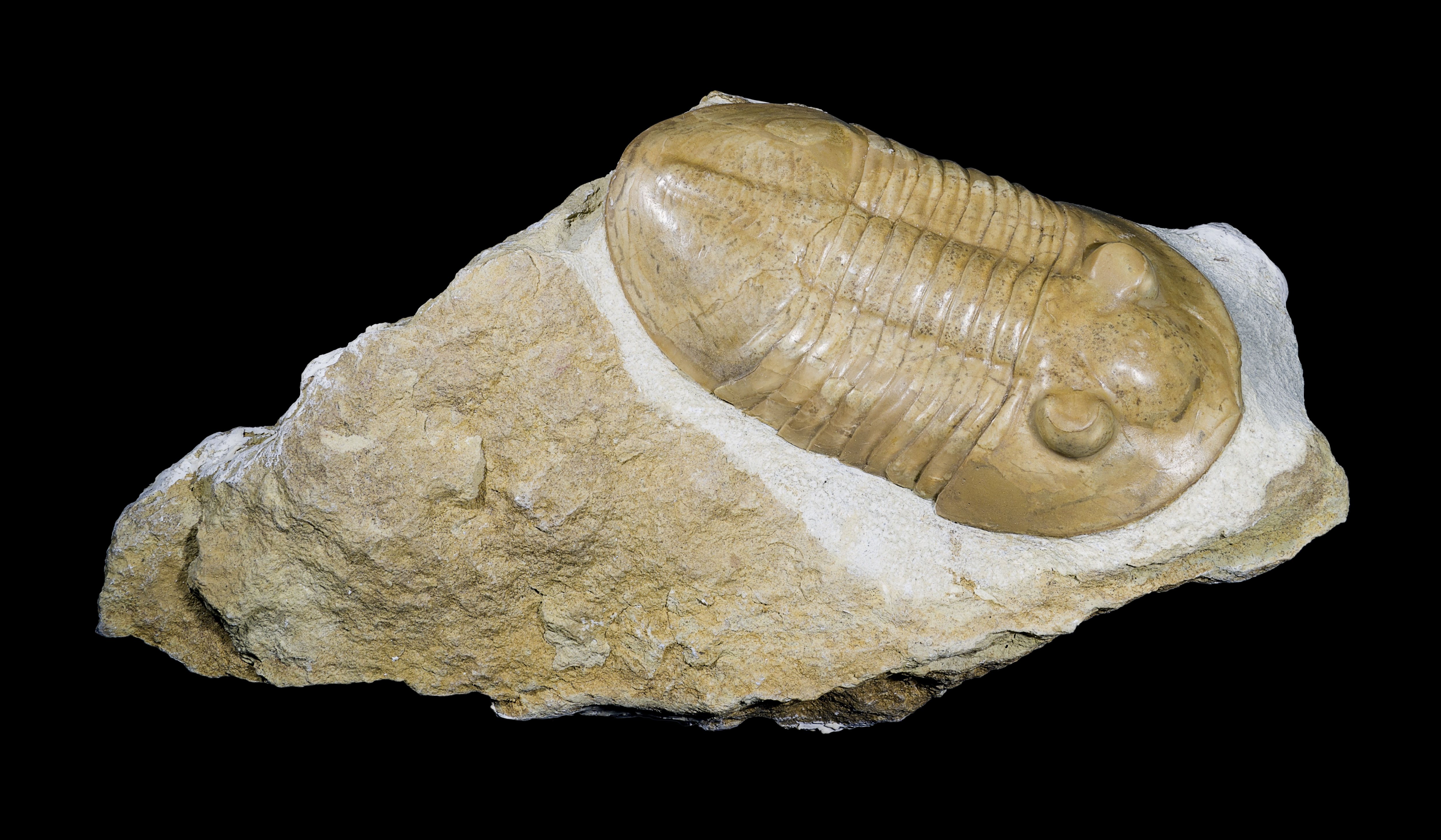 Trilobita - Pseudoasaphus praecurrens Stage : Paleozoic Middle Ordovician (Darriwilian 468 – 460 Million year ago) Locality : Deposits of Koporka river, Saint Petersburg, Russia Size : 18.4 x 10 x 4.4 cm 580g